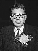 Japanese Prime Minister Tetsu Katayama (1887–1978)